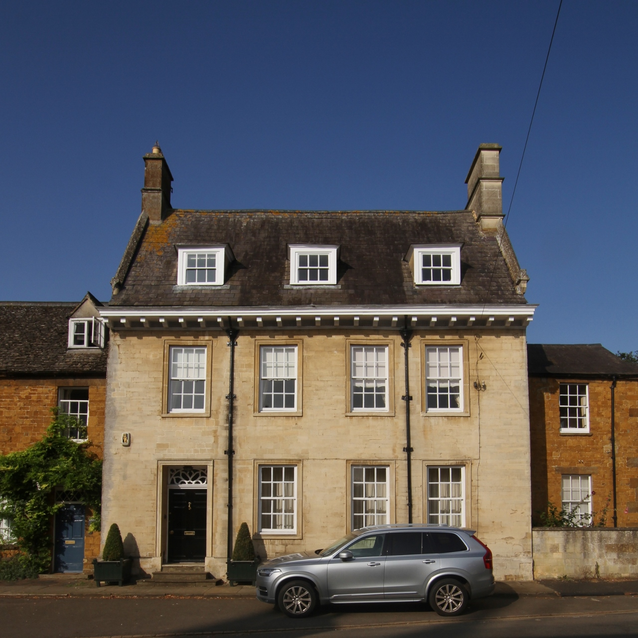 The Hermitage, Market Place, Deddington, Oxfordshire, seen from the east. A 17th-century house with an 18th-century ashlar façade.